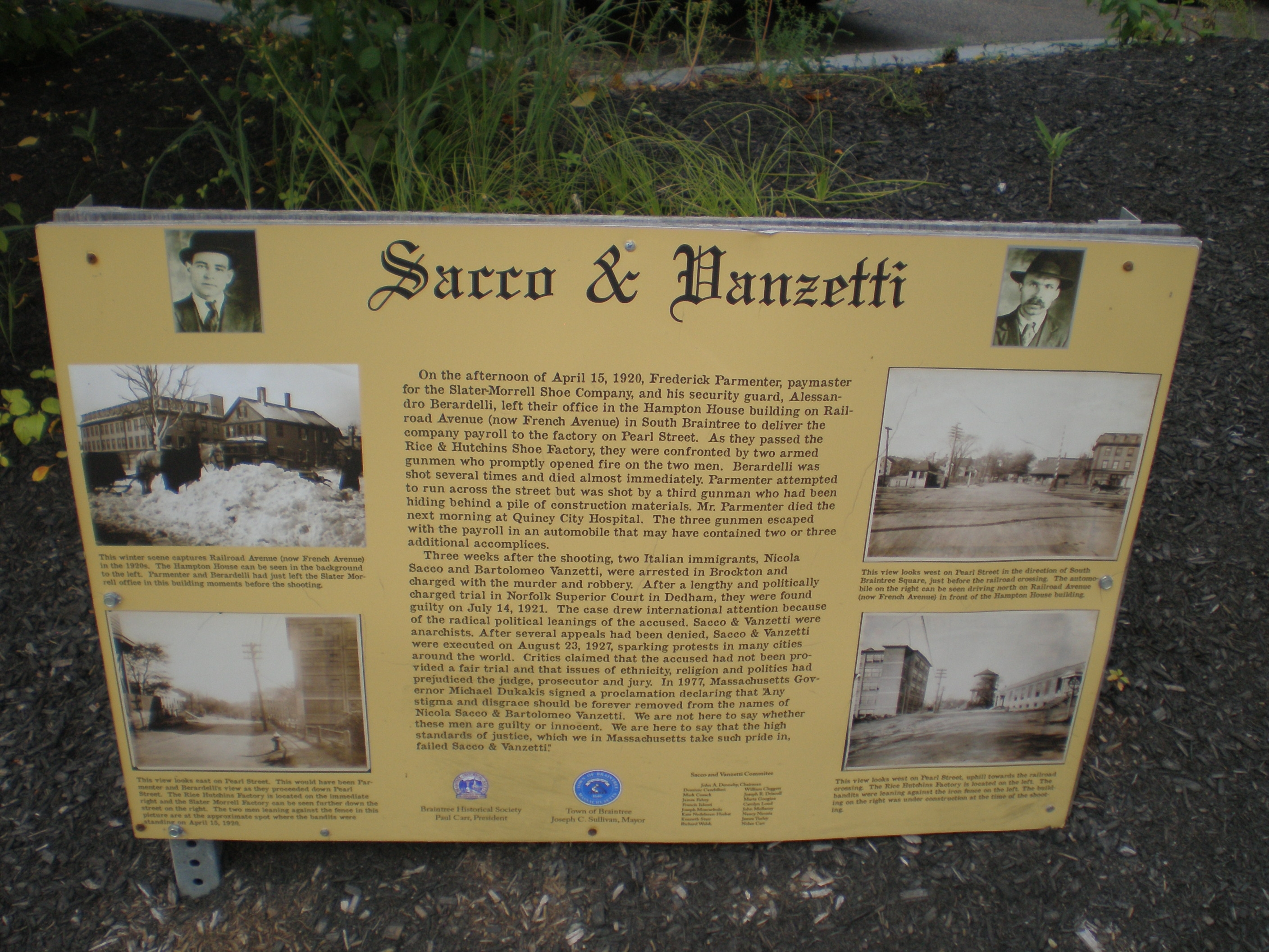 Poster commemorating the April 15, 1920 robbery of a Braintree, Mass paymaster and security guard. Nicola Sacco and Bartolomeo Vanzetti were arrested and charged with the murders. They were subsequently convicted and executed in a trial that was allegedly marked by bigotry and unprofessional behavior by the judge, prosecutor, and jurists.